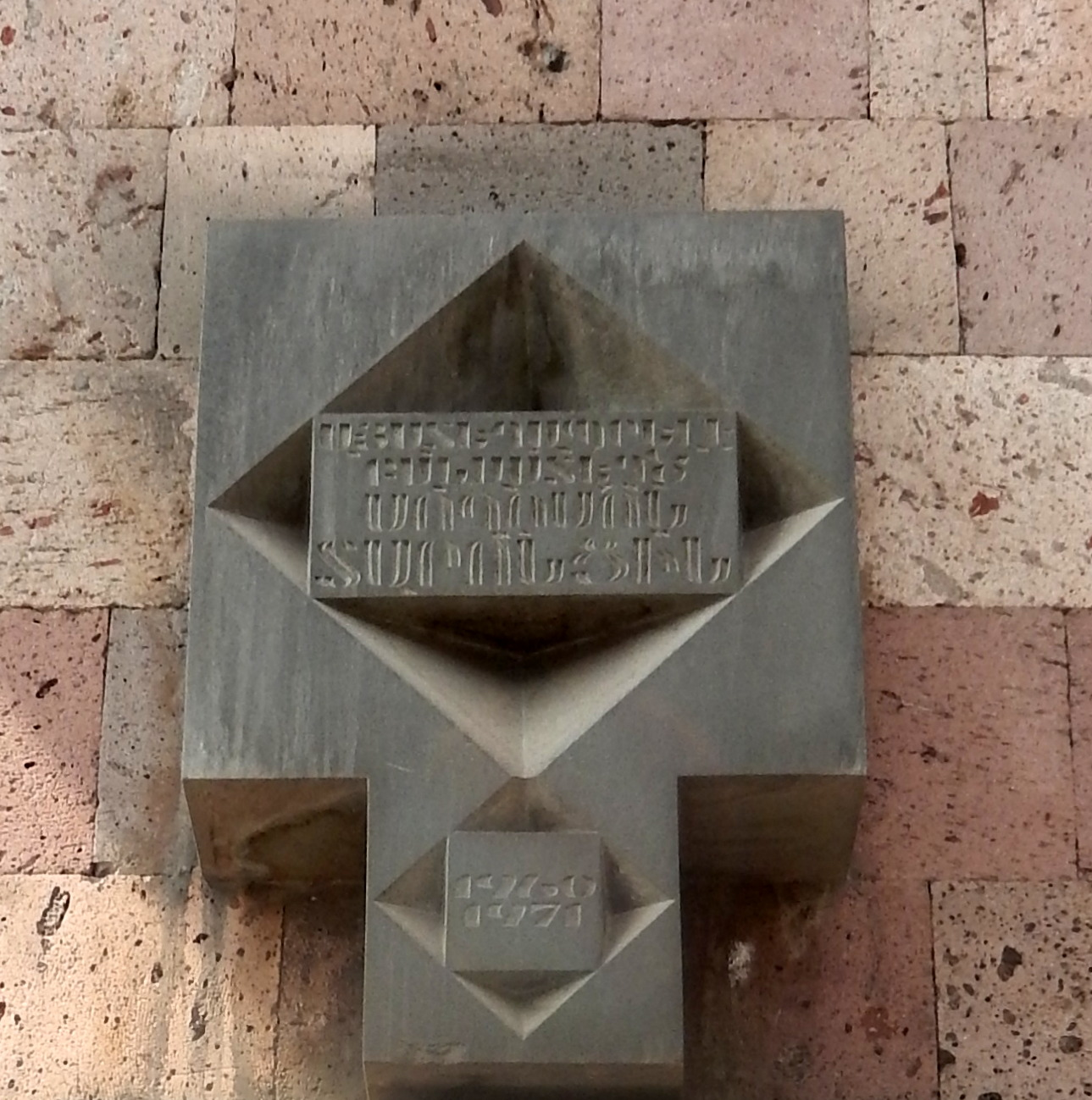 Soghomon Tarontsi's plaque in Yerevan